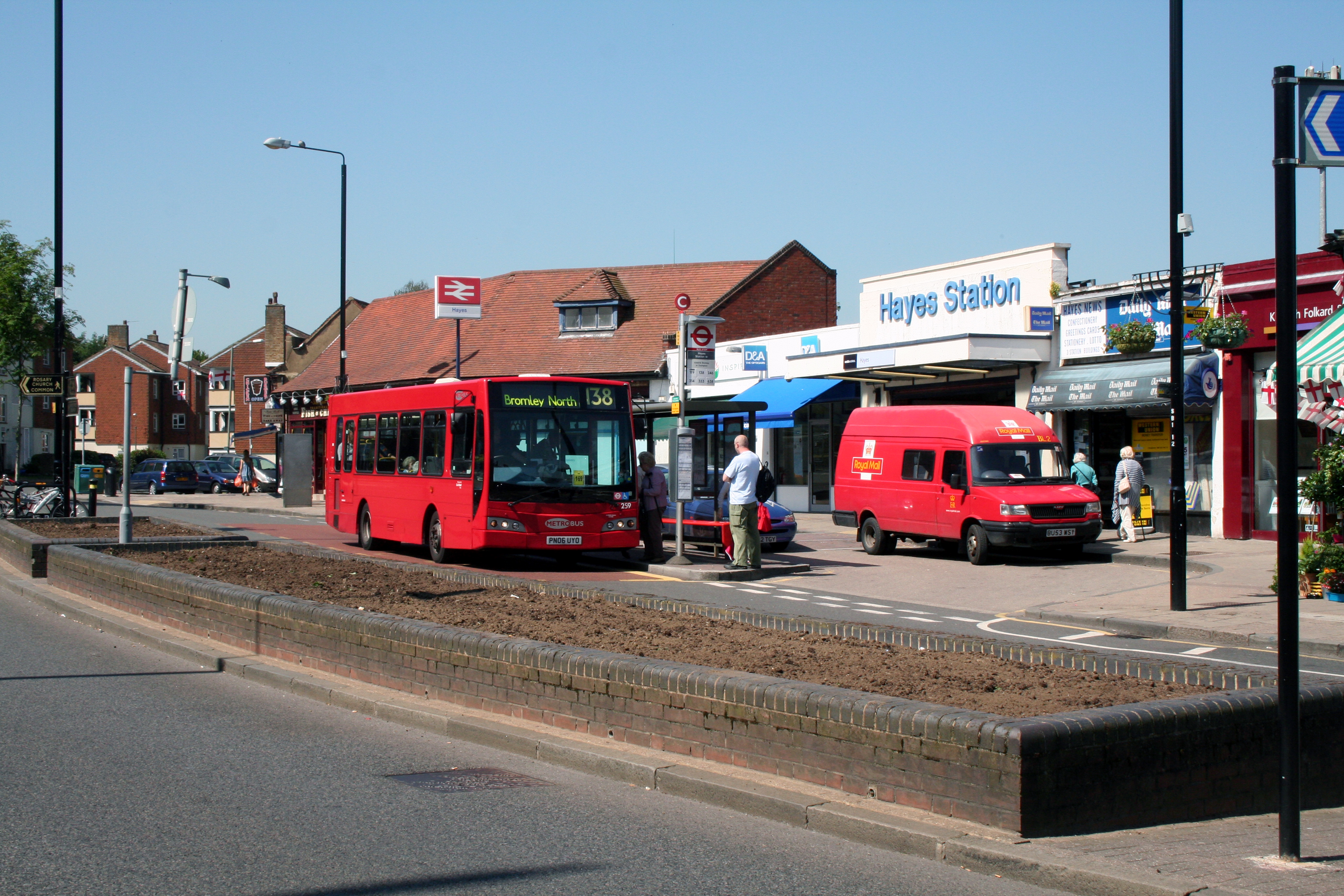 Hayes, Kent: Station, near to Hayes, Bromley, Great Britain. The railhead at Hayes has excellent bus connections. Here is seen a singledecker on the 138 service which operates between Bromley North and Coney Hall. The bus is Metrobus 259 (PN06 UYO).